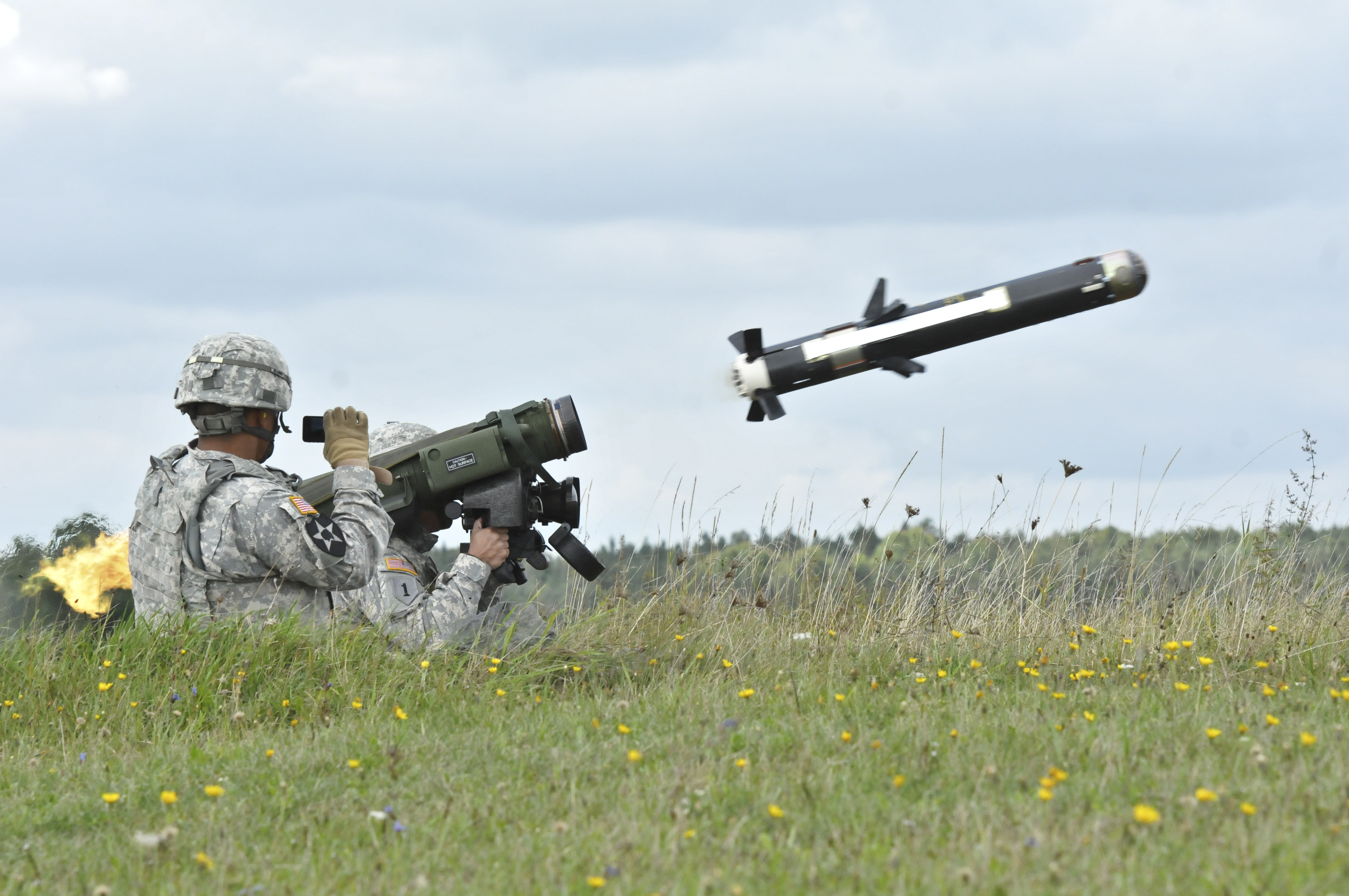 Troops assigned to 3rd Squadron, 2d Cavalry Regiment fire a M98 Javelin Weapon System during range operations conducted at Grafenwoehr Training Area located near Rose Barracks, Germany, Sept. 23, 2014. (U.S. Army photo by Sgt. William Tanner)